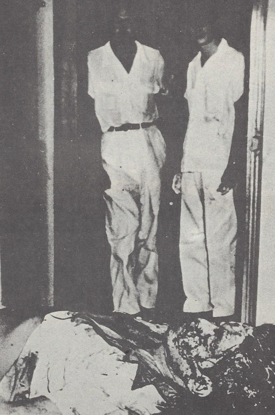 Miranda Diaz, one of casualties of the Puerto Rican Nationalist Party Revolts of the 1950s.